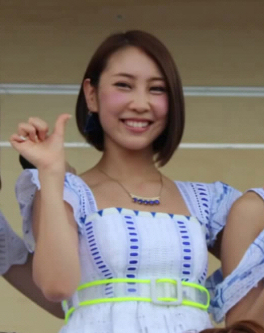 Rina Chikano in 2013